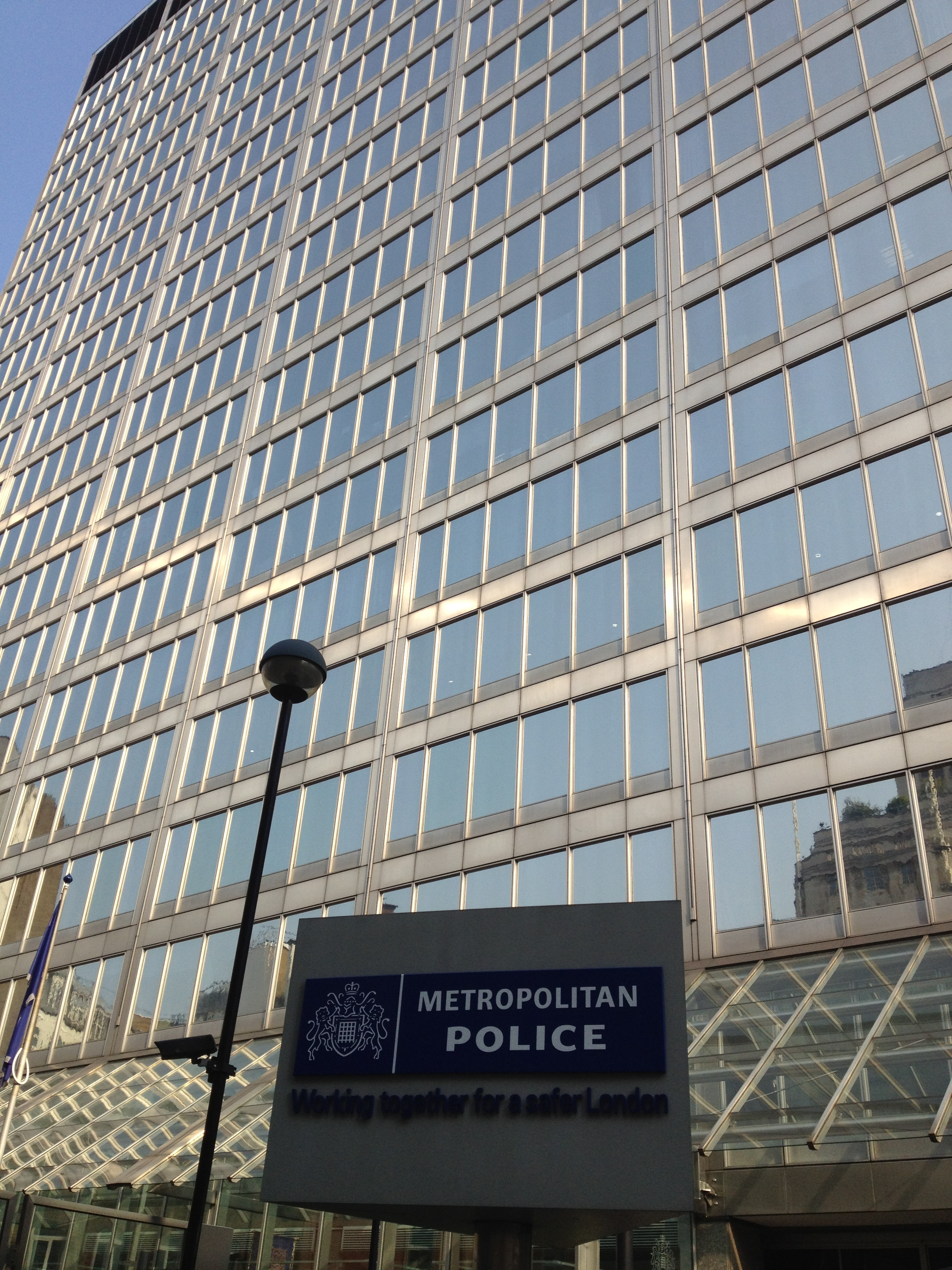 Sign in front of the Metropolitan Police Service Building, London England